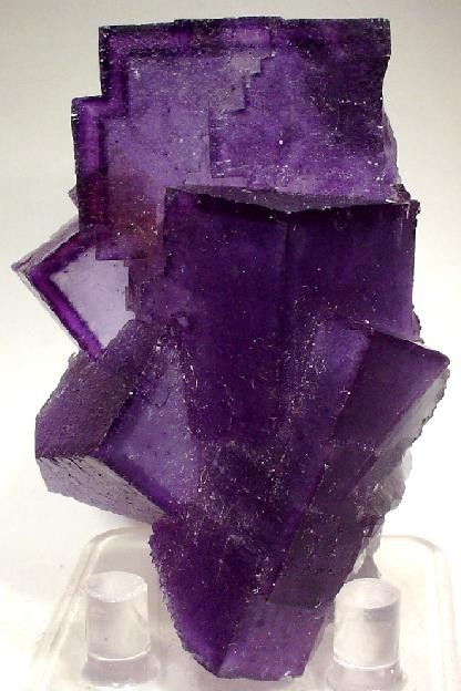 Fluorite Locality: Hardin County, Illinois, USA (Locality at ) A SUPERB and AESTHETIC cluster of lustrous, transparent, frosted, purple fluorite cubes with EXCELLENT edge phantoms from the famous South Illinois Fluorite District. A beautifully pristine specimen. 7.4 x 5.3 x 3.4 cm